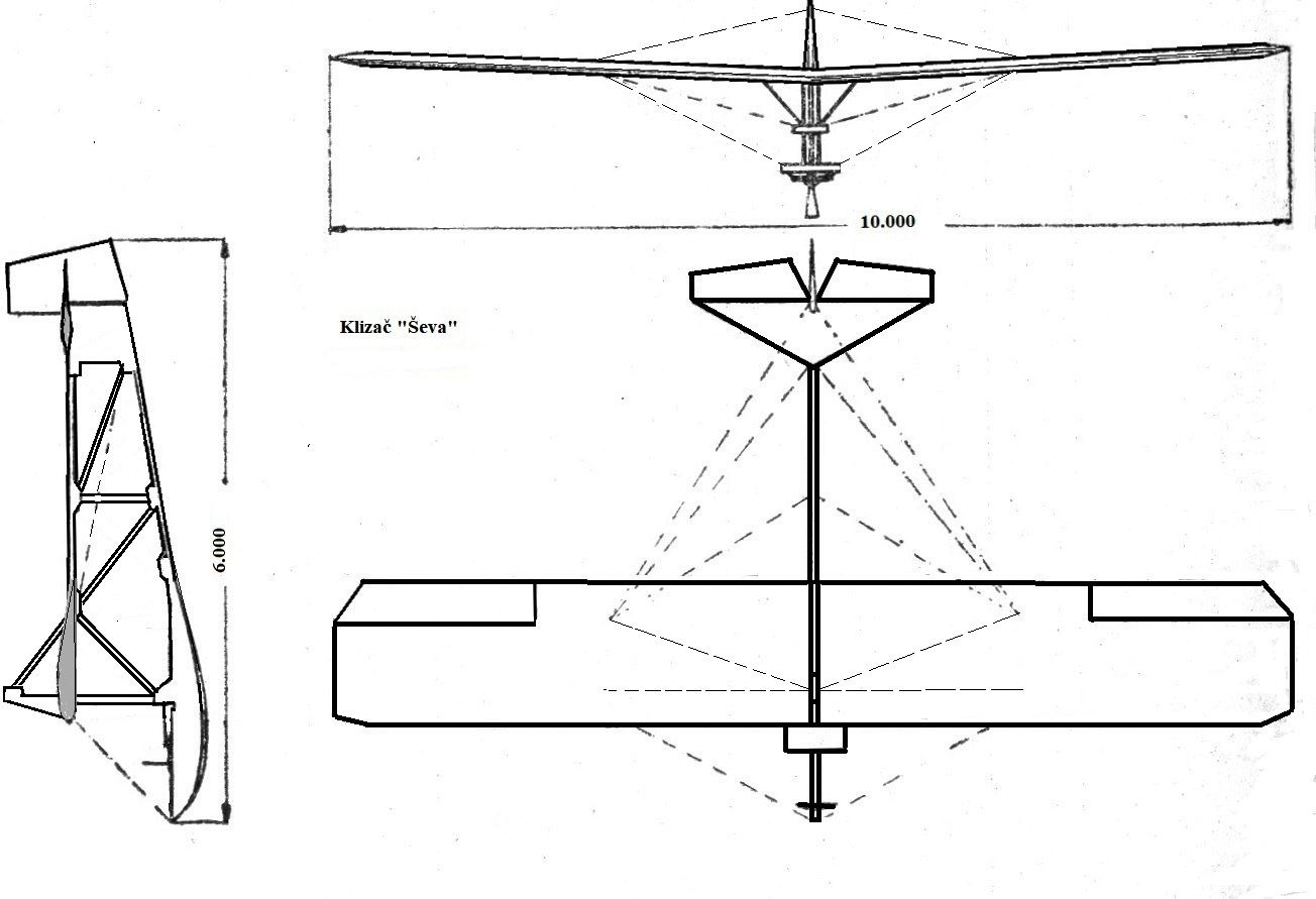 Yugoslav Glider "Ševa"